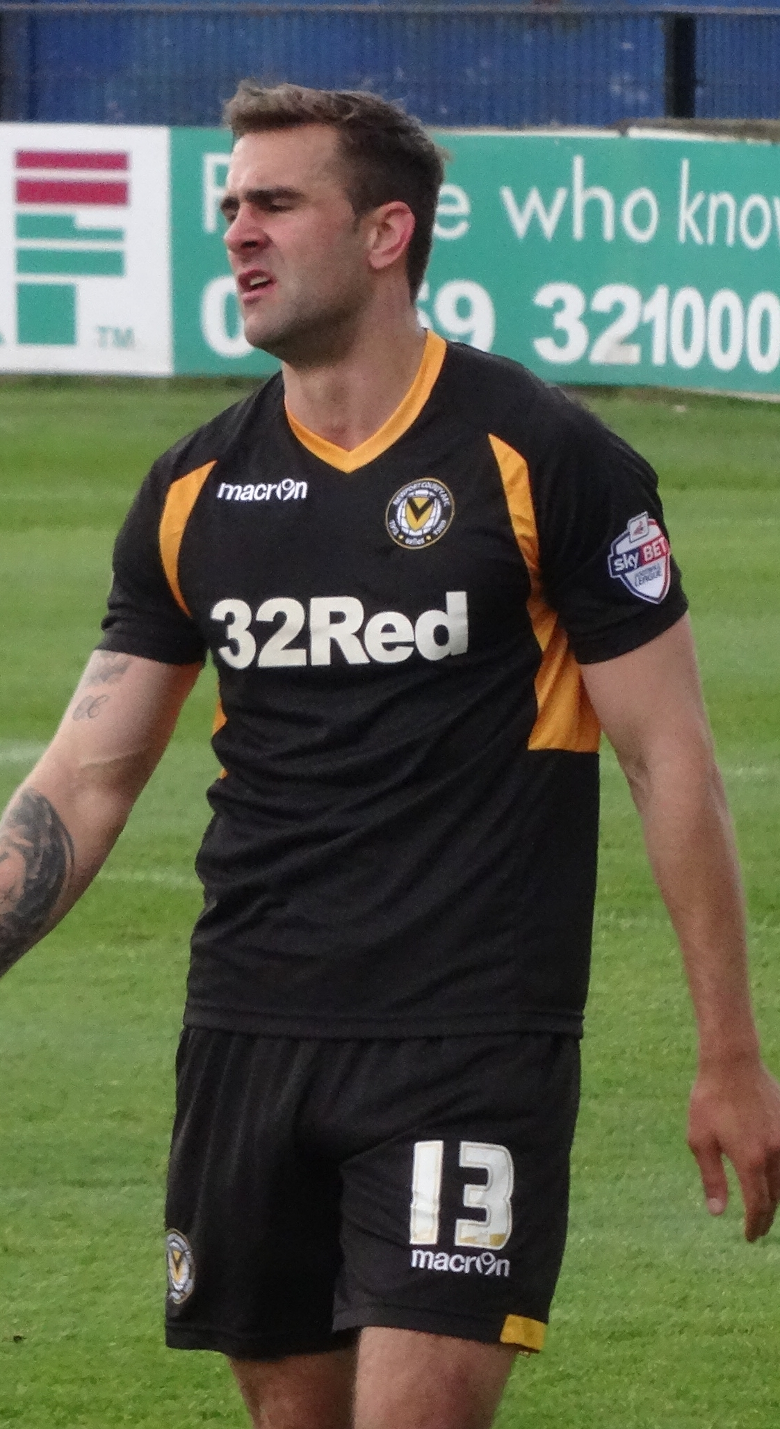 Andy Sandell playing for Newport County against York City at Bootham Crescent, York on 26 April 2014